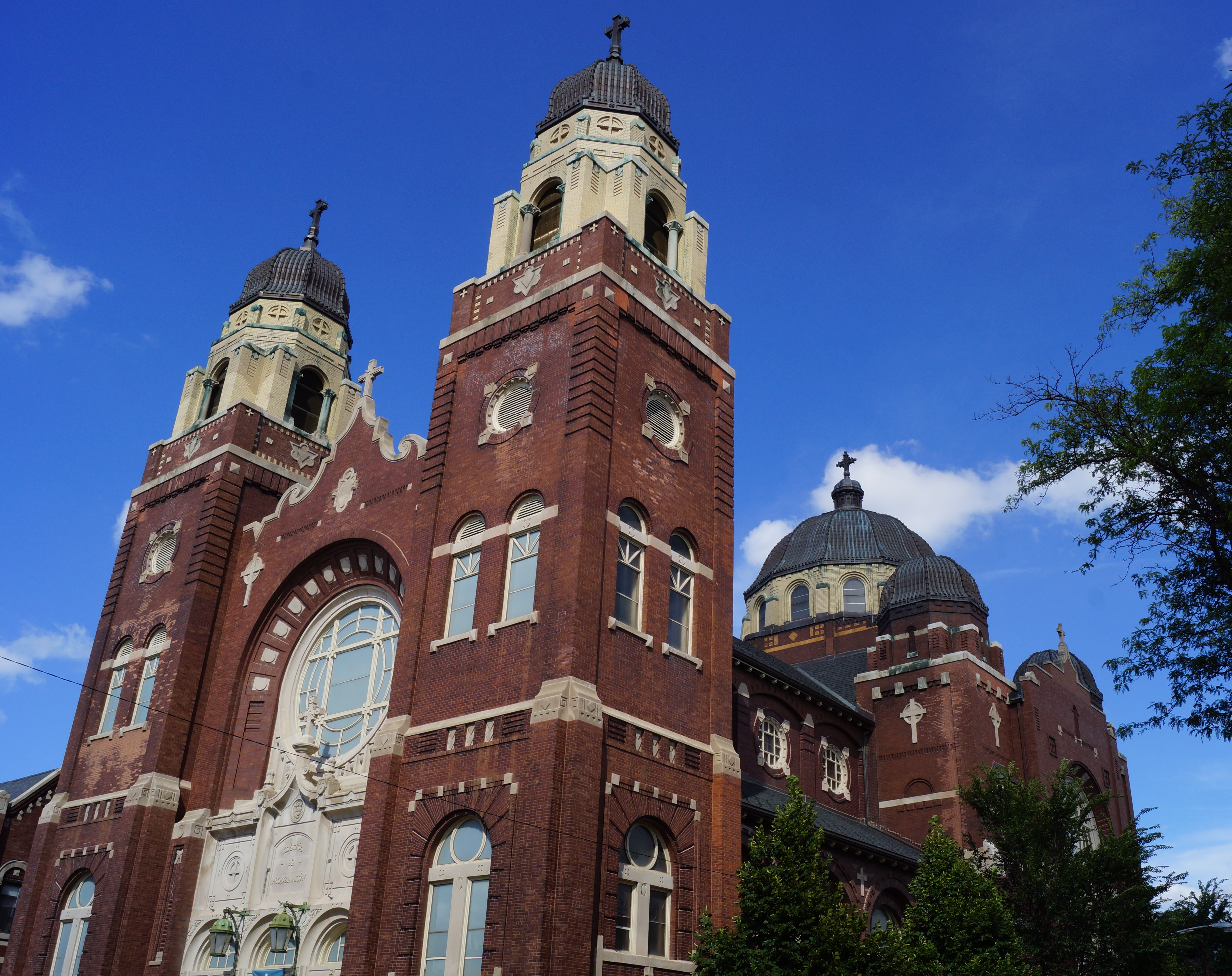 Holy Innocents RC Church, exterior, Chicago, IL